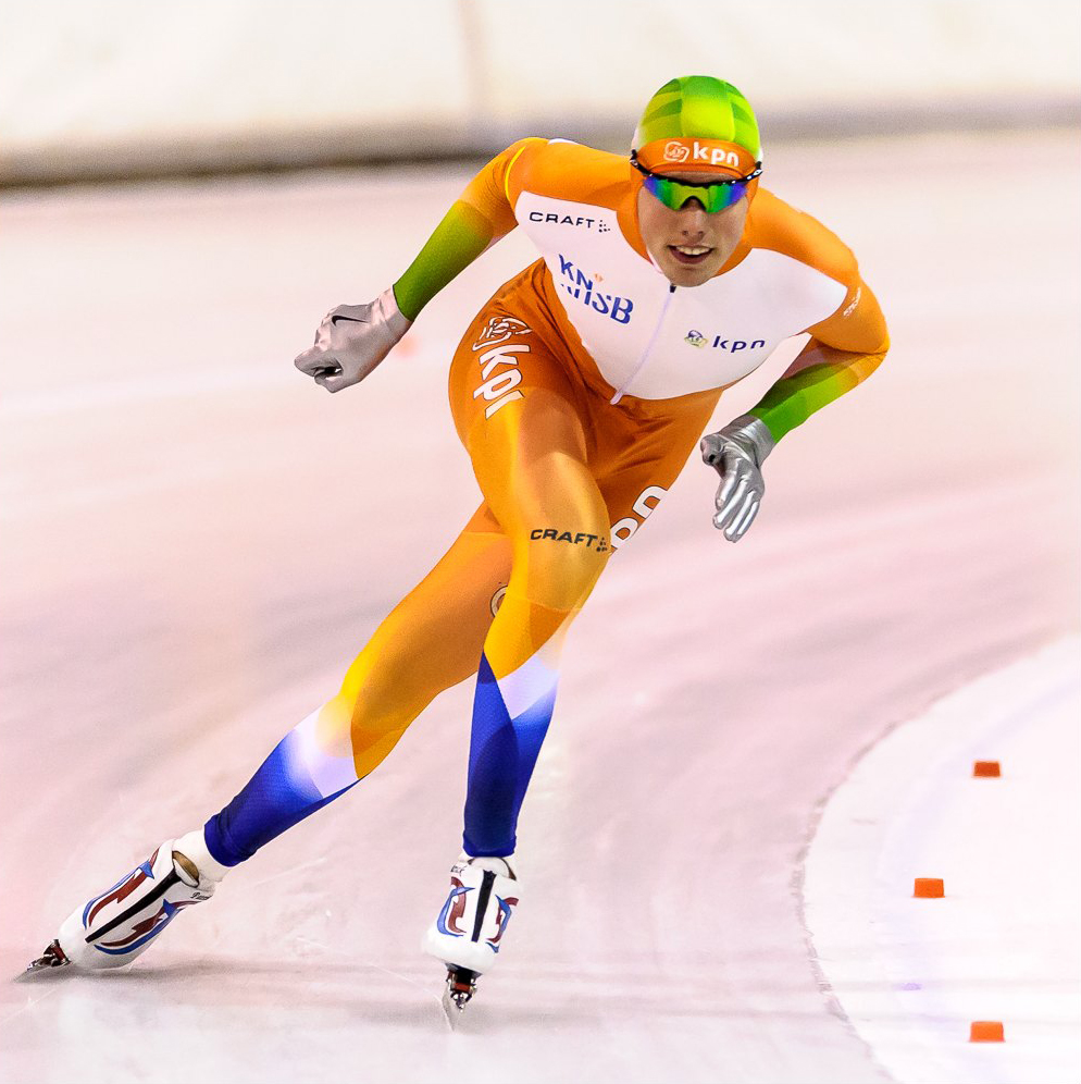 Patrick Roest at the Eindhoven Trofee 7th December 2013